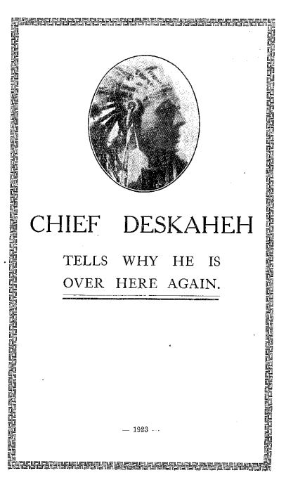 Title page from 1923 pamphlet